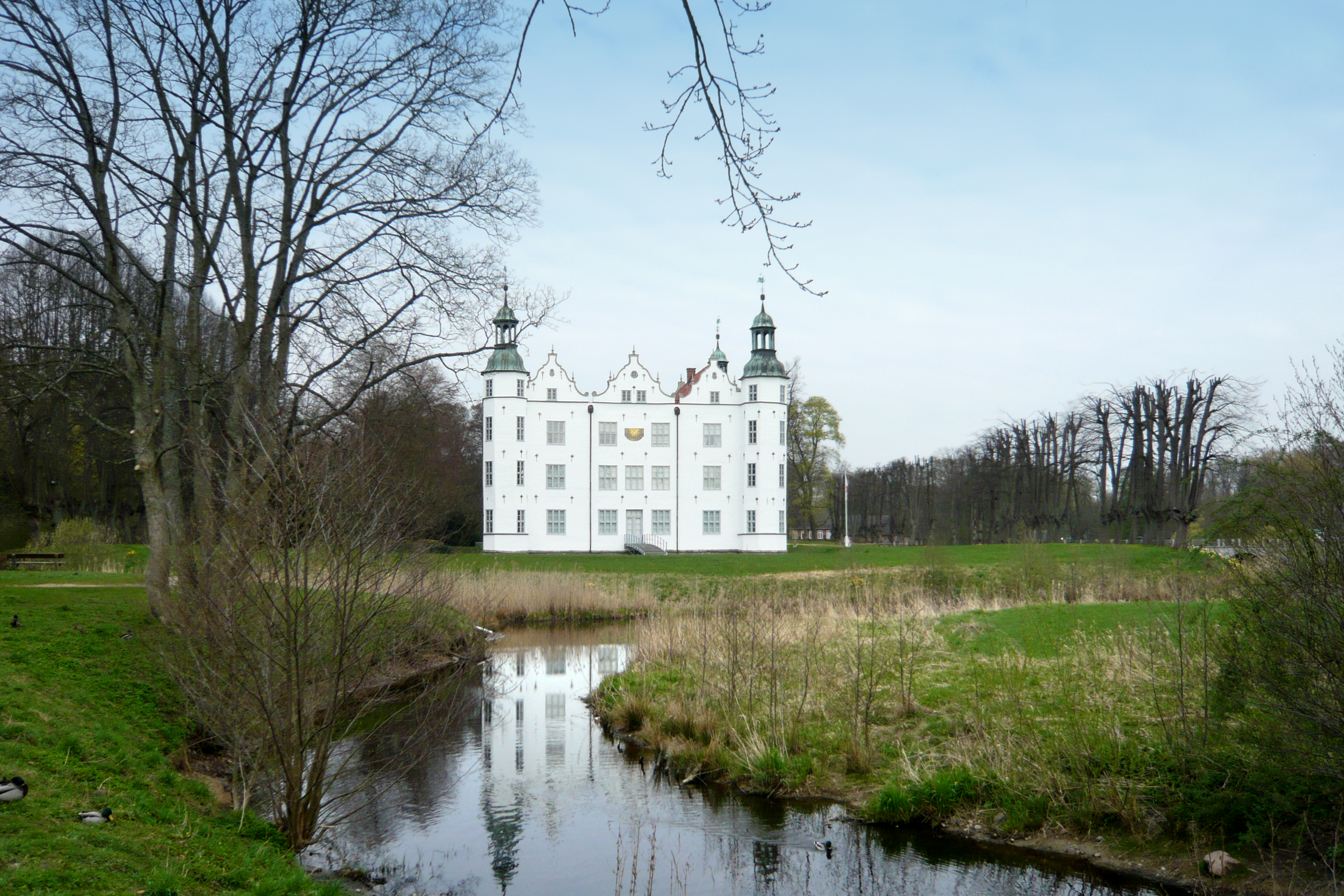 Ahrensburg Castle